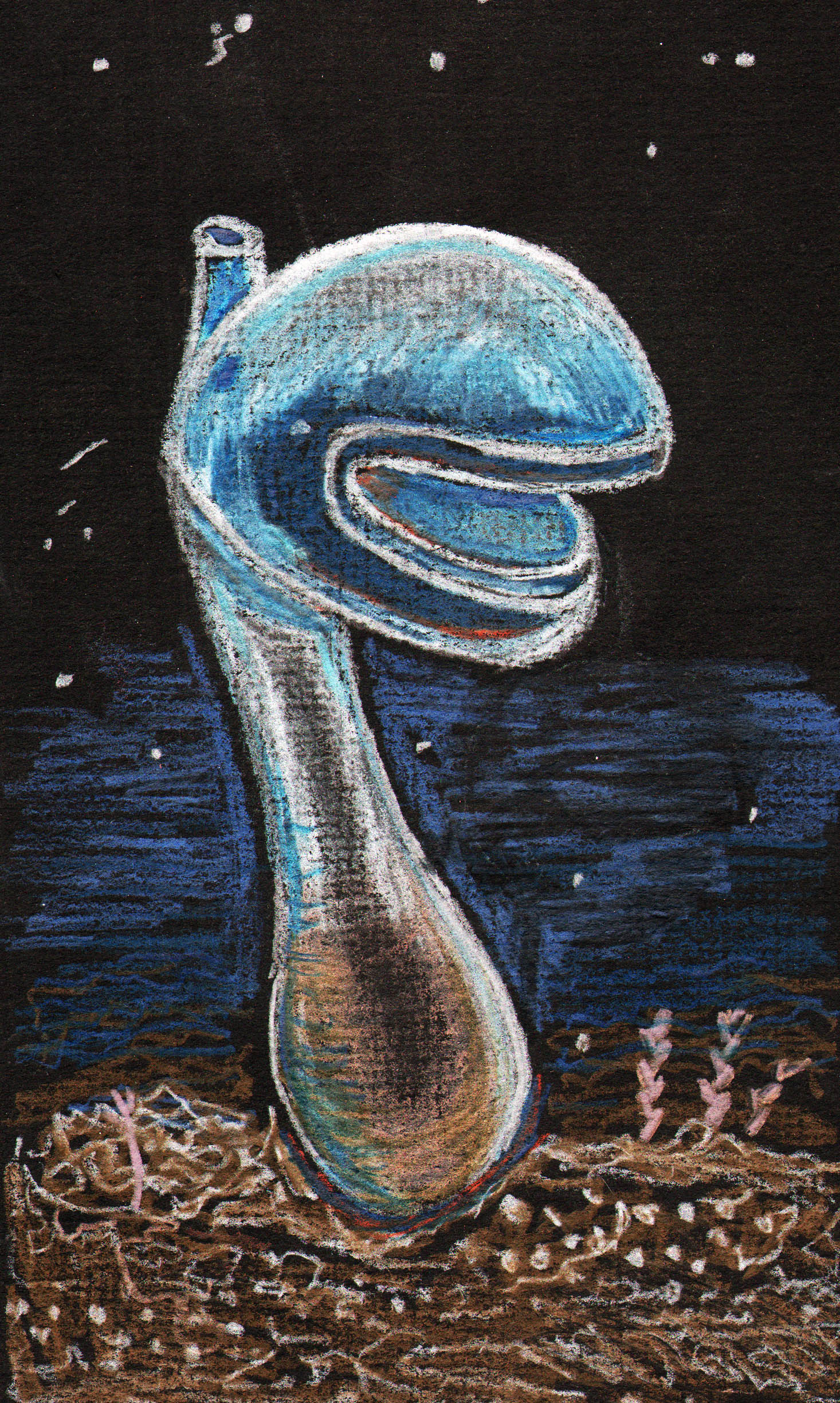 a drawing of the predatory tunicate Megalodicopia hians